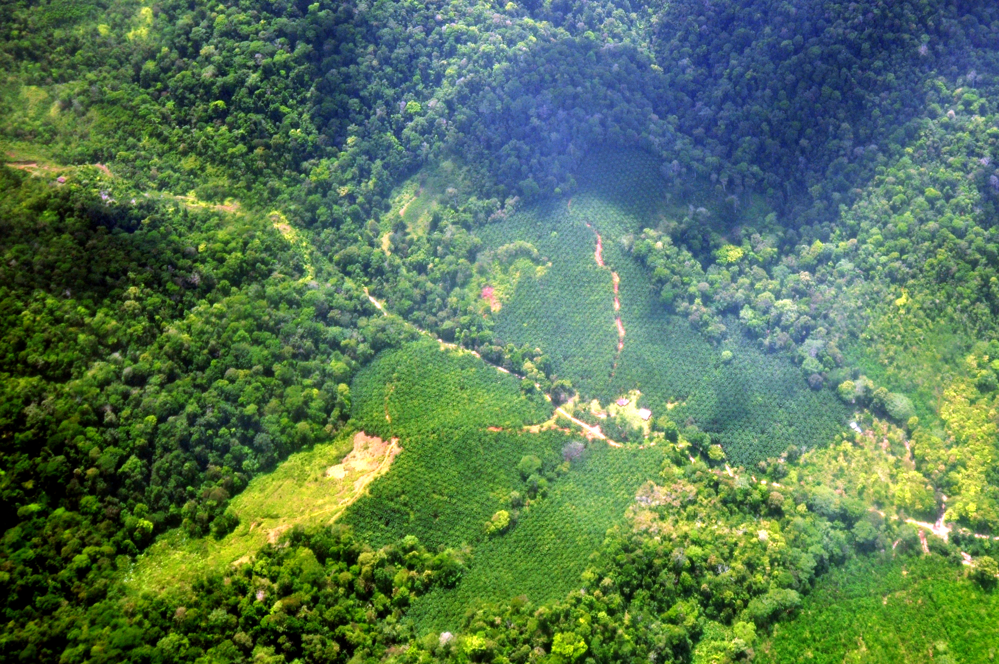 An aerial view of landscape with oil palm plantations and forests in Costa Rica